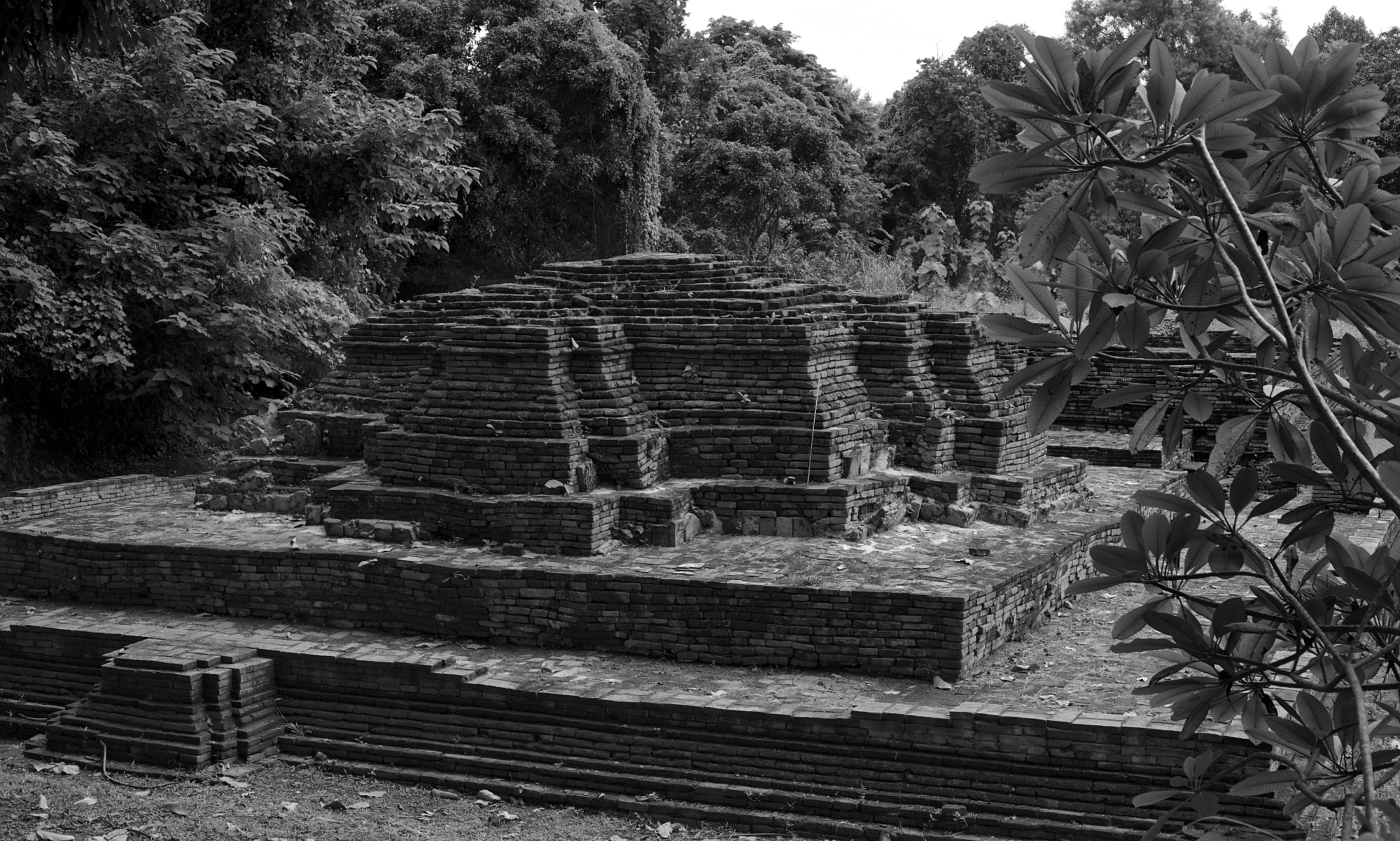 View from the south of the ruins of Wat Oong Dam (วัดพระเจ้าองค์ดำ). Part of the Wiang Kum Kam archaeological site, Chiang Mai, northern Thailand.